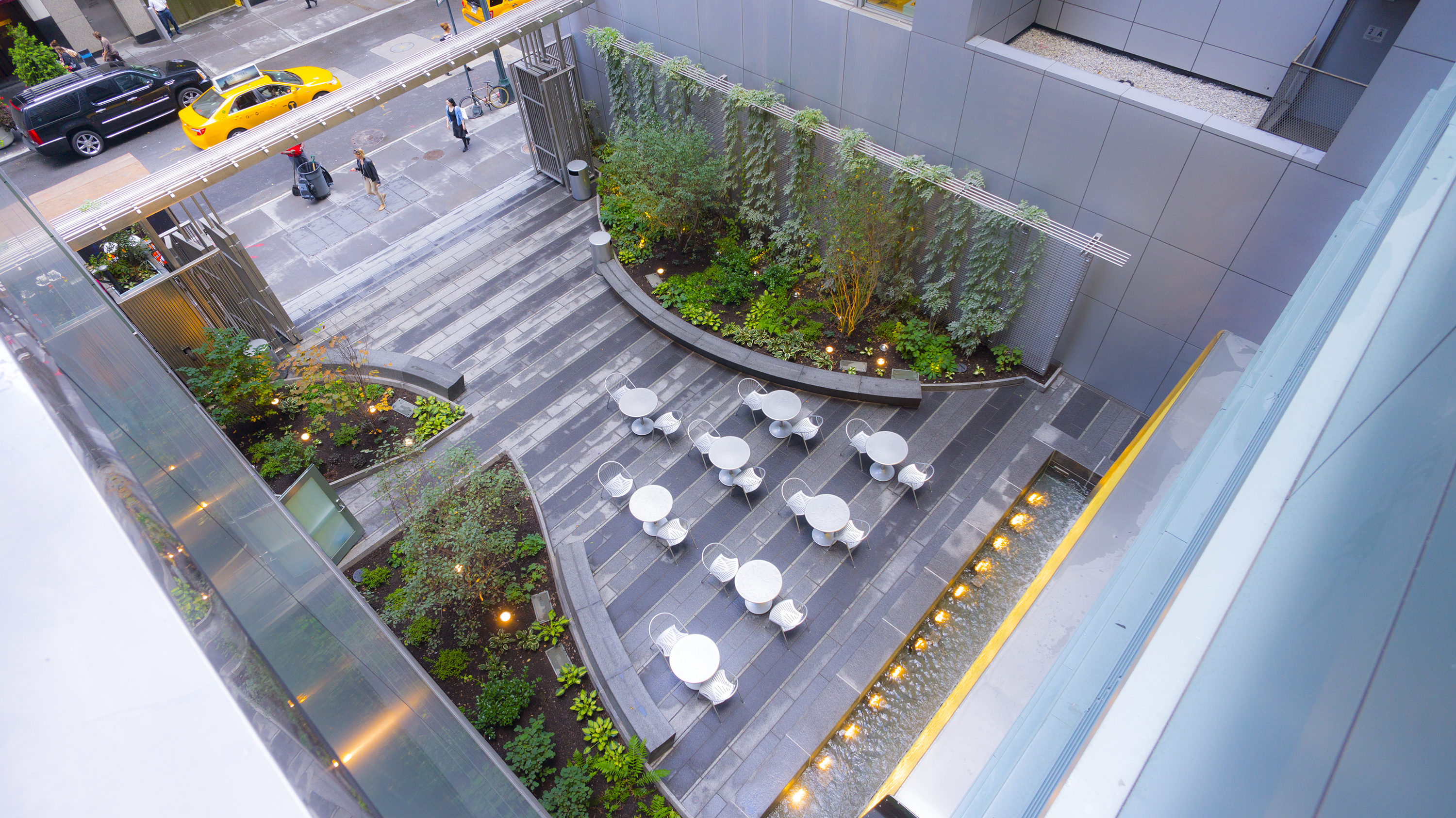 50th Street Commons public space, constructed as part of the East Side Access project, formally opened on Tuesday, September 16. The new 2,400-square-foot urban space, located at 48 East 50th Street between Park and Madison Avenues, features a rich palette of stone, glass, stainless steel and North American granite blocks designed to draw people into the space. Tables, chairs and benches can seat more than 40 people, with room for many additional visitors. Photo: MTA Capital Construction / Rehema Trimiew